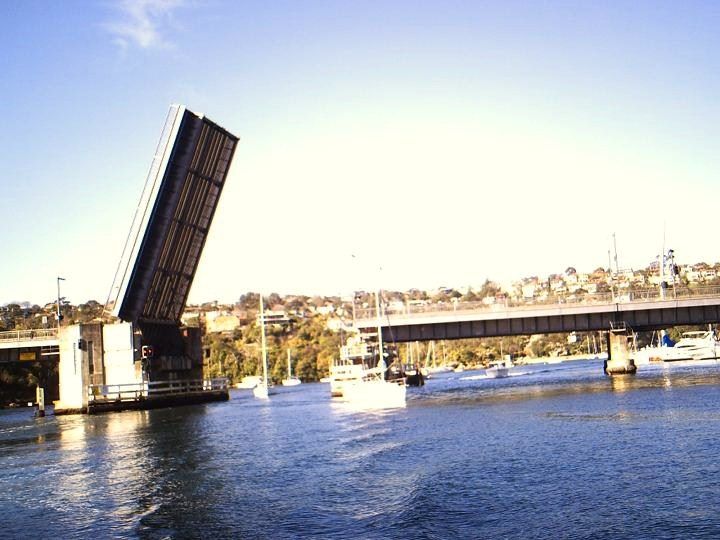 A photo of the Spit Bridge, Sydney, Australia. Taken by cls14 in August 2006.